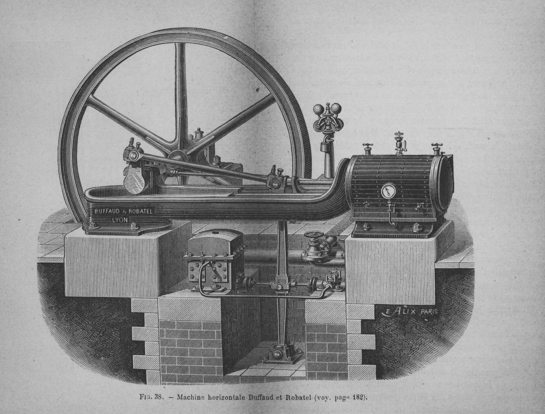 Copied from page 178-179 of the book shown. Converted to greyscale using GIMP. Buffaud & Robatel steam engine from France ca. 1890's